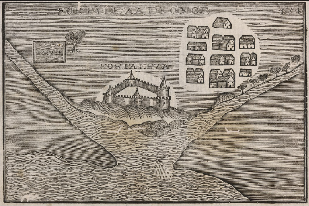 Picture of Honnavar fortress in Portuguese book of the 17th century